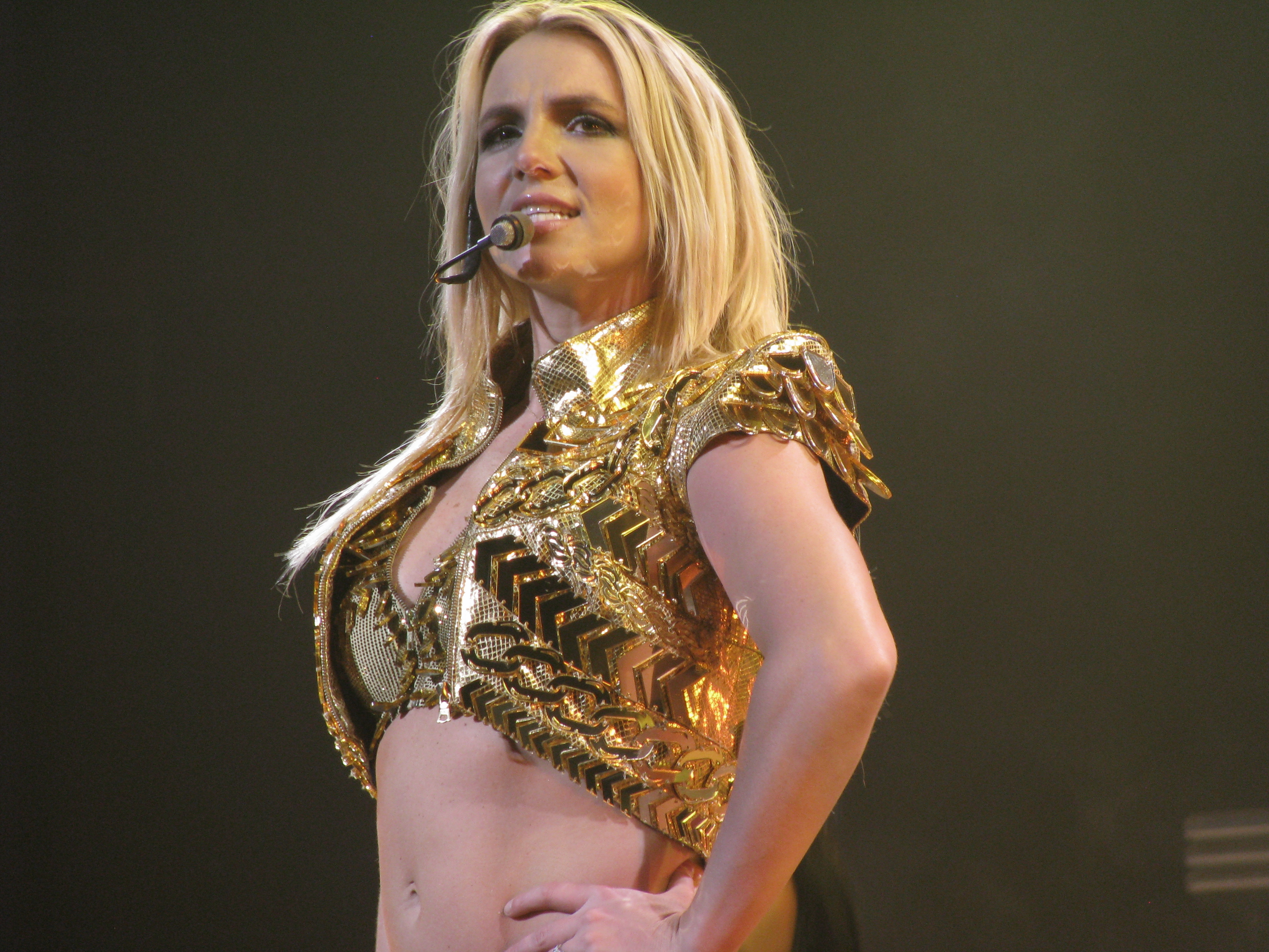 Britney Spears live in Toronto in August 14, 2011.